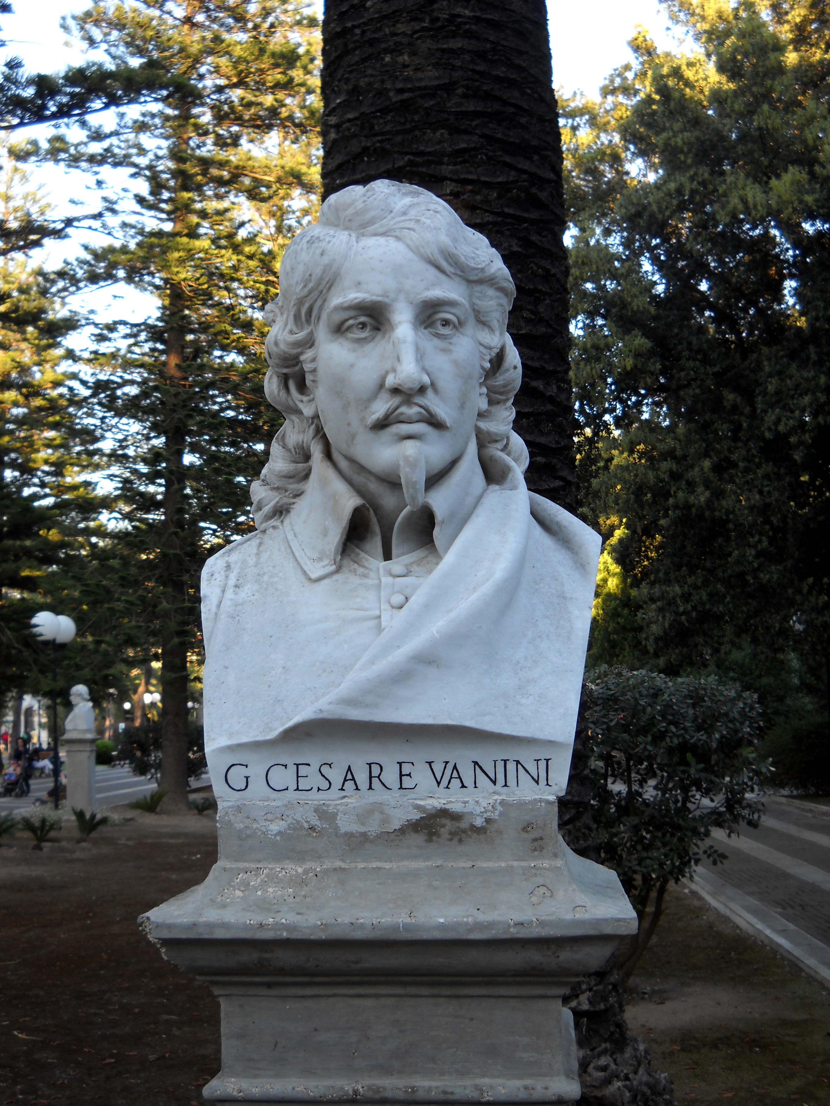 Giulio Cesare Vanini's bust sculpted by Eugenio Maccagnani at Villa Comunale in Lecce, Italy.